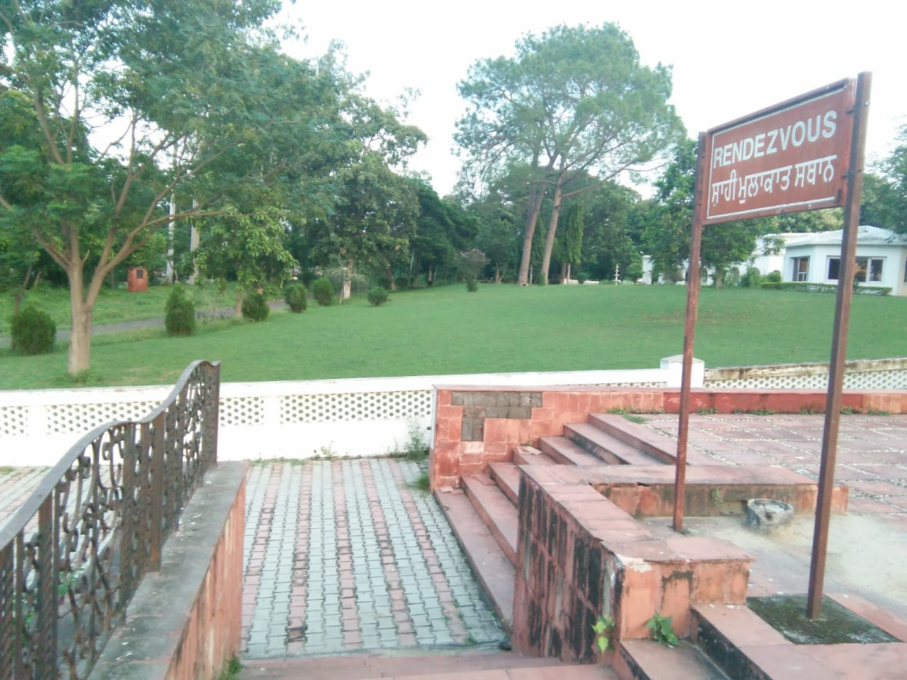 Shahi Mulakaat Sthan Maharaja Ranjit Singh Runagar Image Credit Entrepreneur Rudhrah Gourav